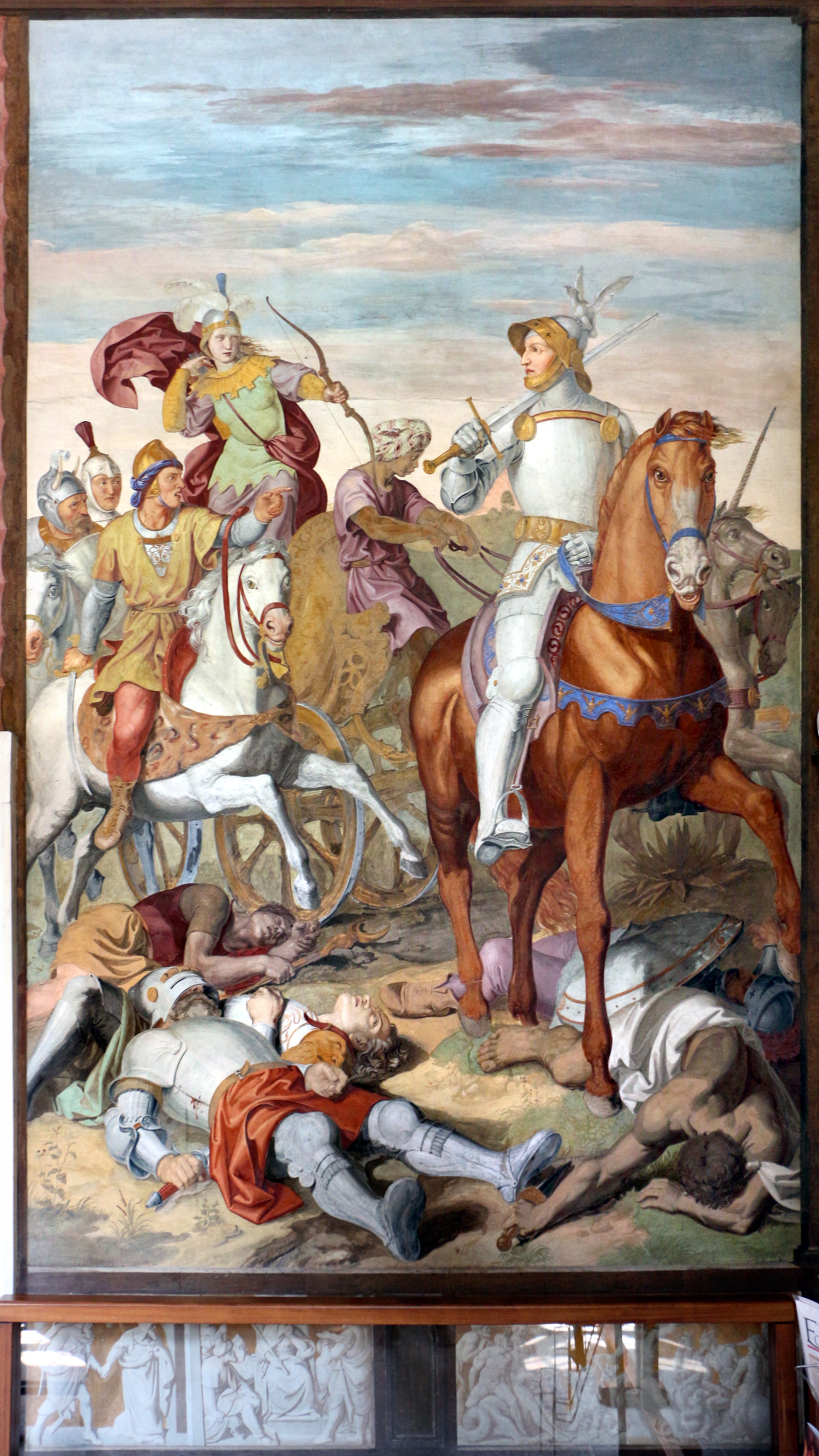 Casa Massimo frescos - stanza del Tasso